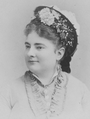 French actress and singer Coralie Geoffroy (1842-ca1905)